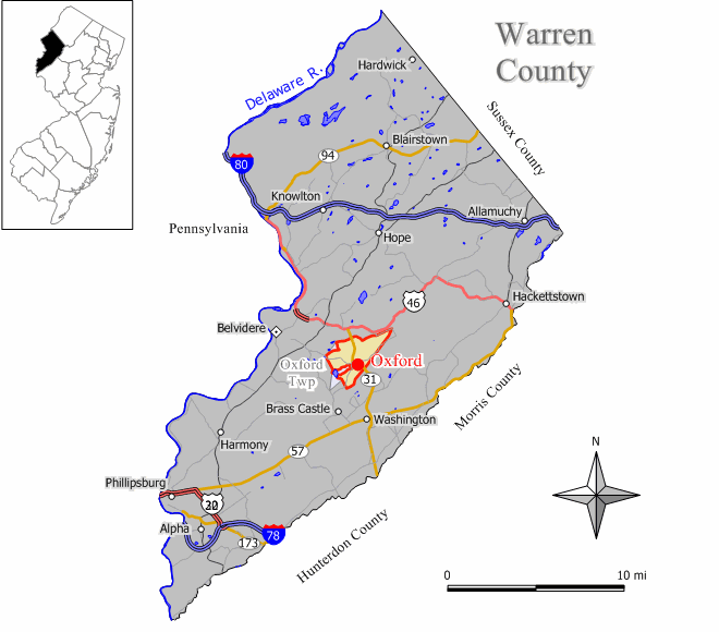 Map of Beattystown CDP in Warren County.